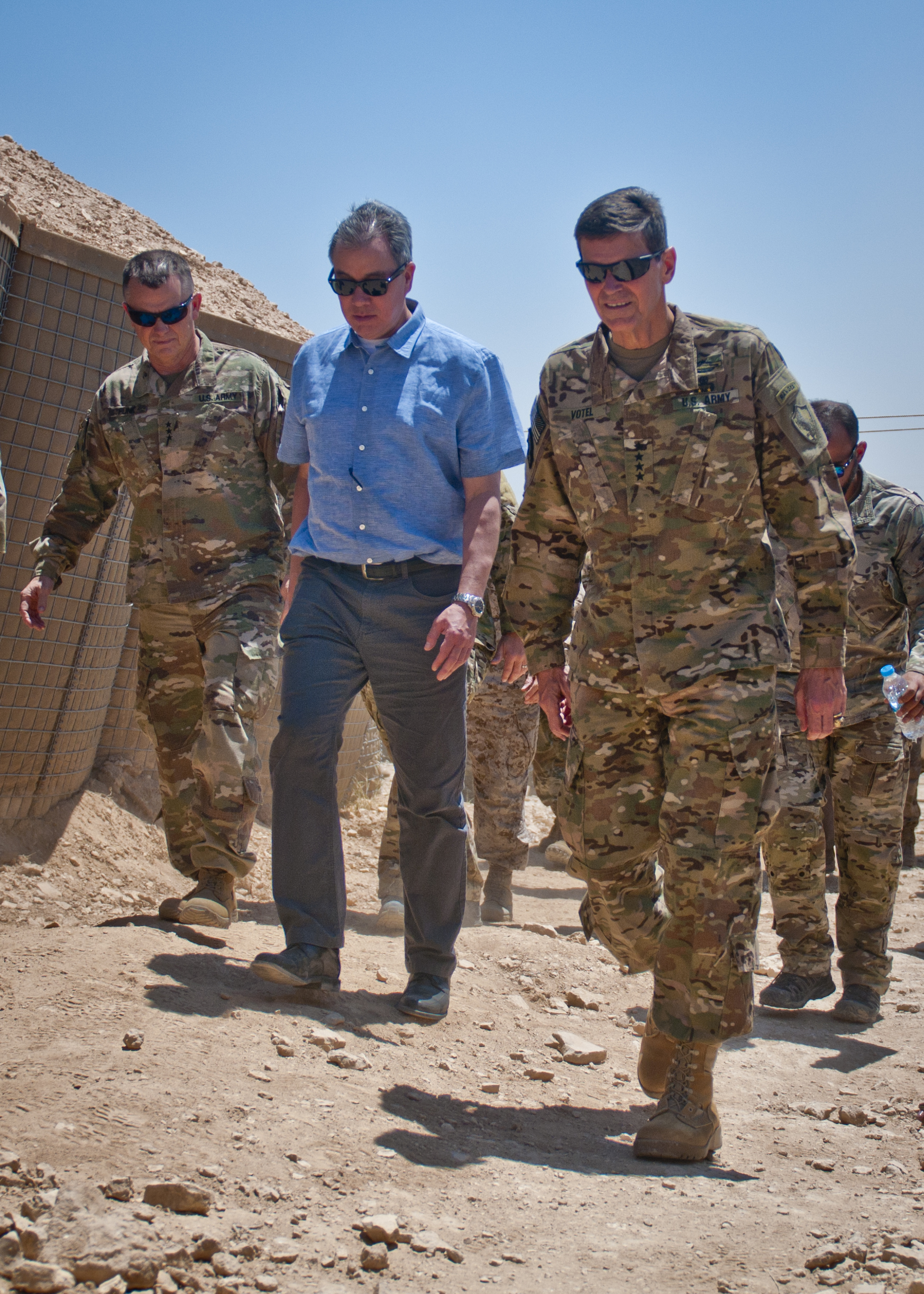 U.S. Army Lt. Gen. Paul Funk, Combined Joint Task Force – Operation Inherent Resolve commander, John Rood, undersecretary of defense for policy, and U.S. Army Gen. Joseph Votel, Central Command commander, arrive at an outpost near Manbij, Syria, June 21, 2018. The meeting was an opportunity for leadership to discuss the current state of military efforts and visit troops stationed there